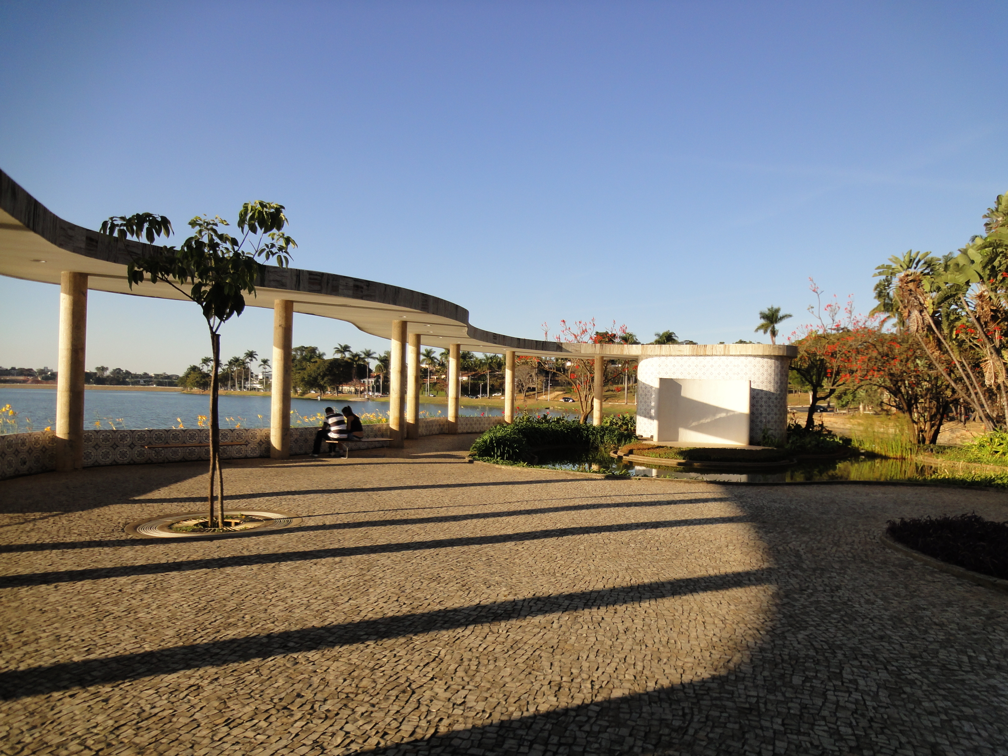 The marquee of Niemeyer Casa do Baile, in Belo Horizonte, Brazil.